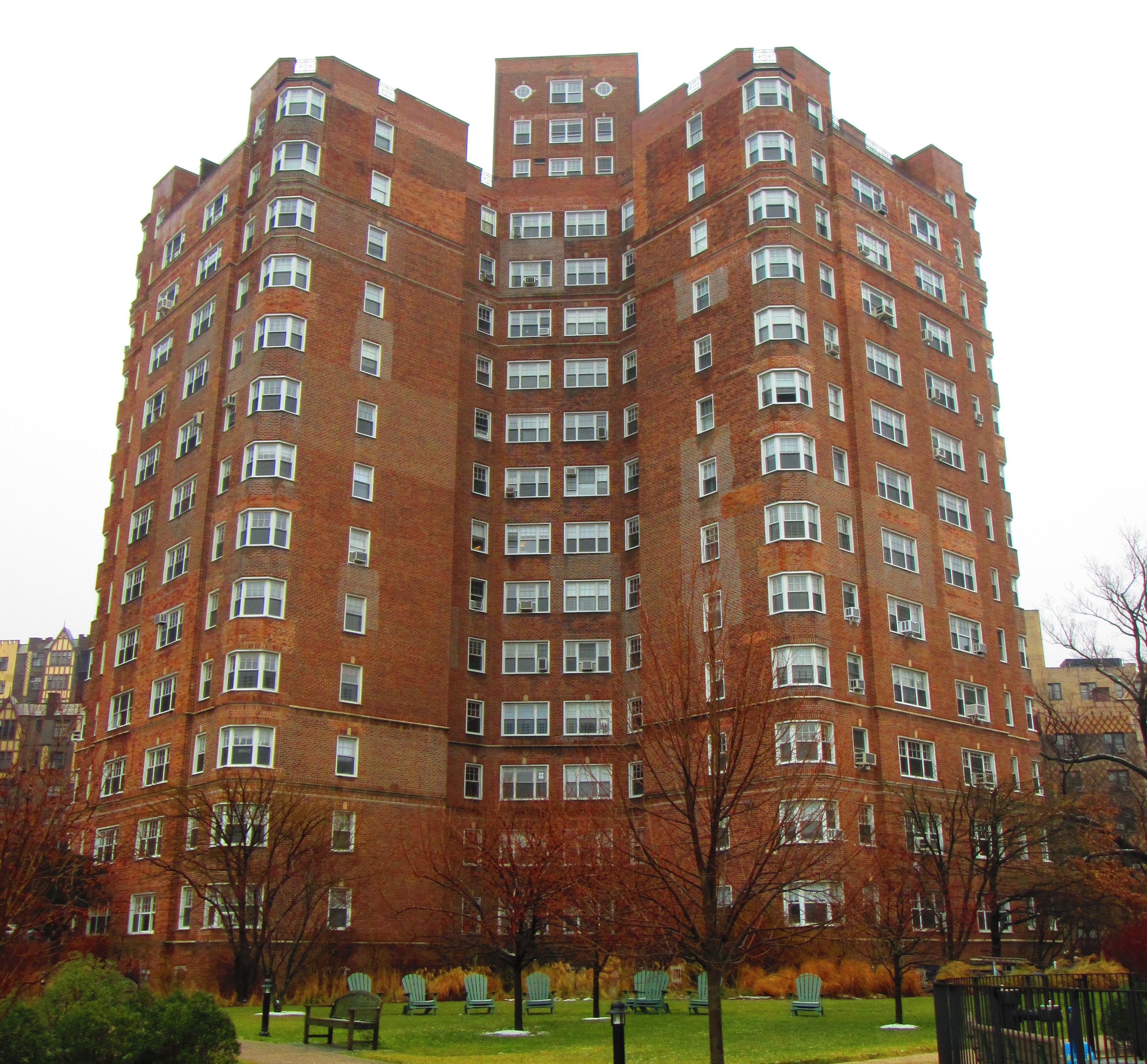 Castle Village is a cooperative apartment complex located on Cabrini Boulevard in the Hudson Heights neighborhood of Washington Heights, Manhattan, New York City. It was built in 1938-39 on the site of a castle which had been the residence of real estate developer Charles Paterno, and was designed by George F. Pelham, Jr., the son of George F. Pelham, who designed the nearby Hudson View Gardens cooperative. Castle Garden was one of the earliest apartment towers to use reinforced concrete construction. (Source: AIA Guide to NYC (5th edition))